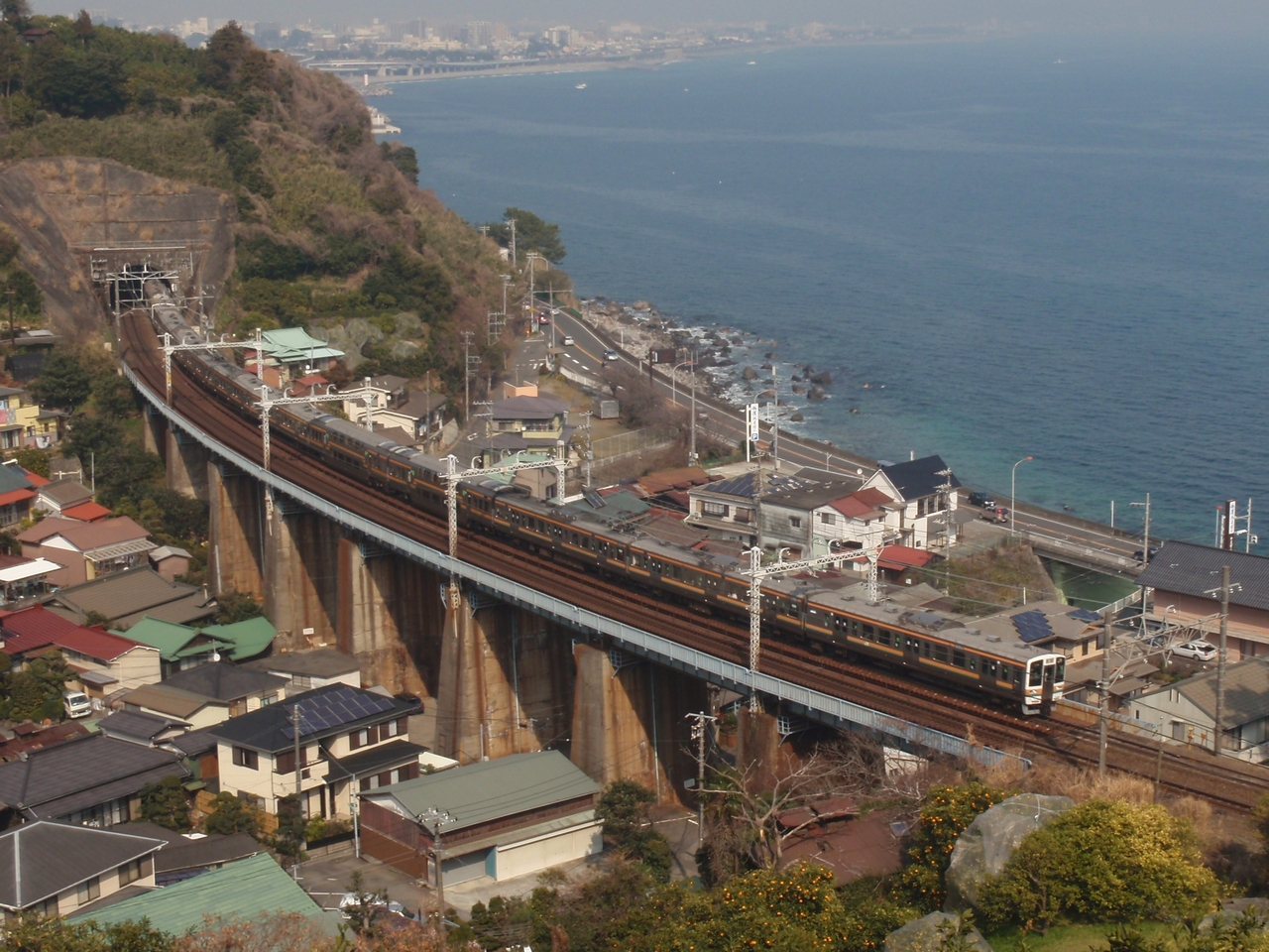 EMU type 211 of East Japan Railway that runs between Hayakawa and Nebukawa on Tokaido Main Line.